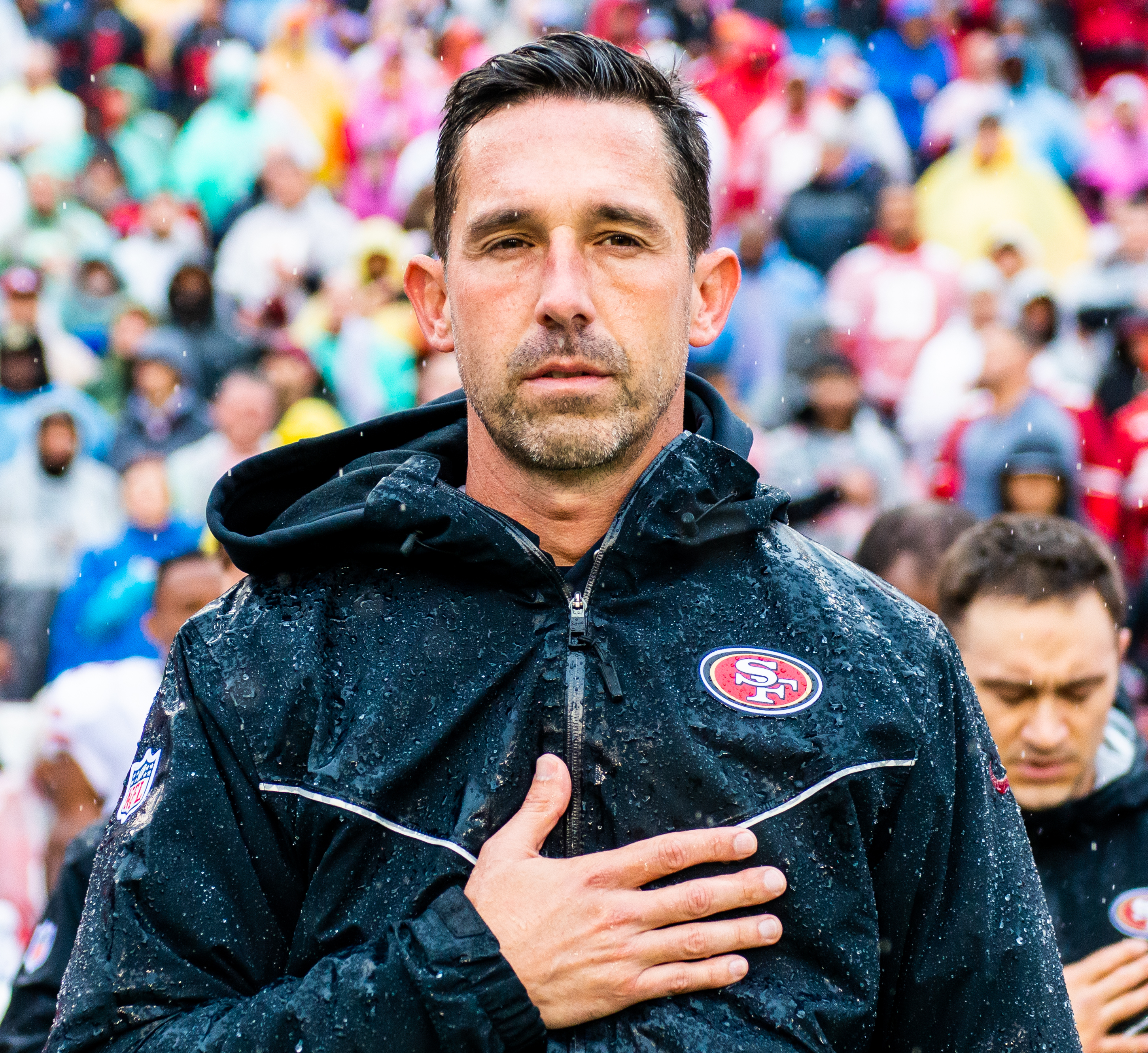 In 2019